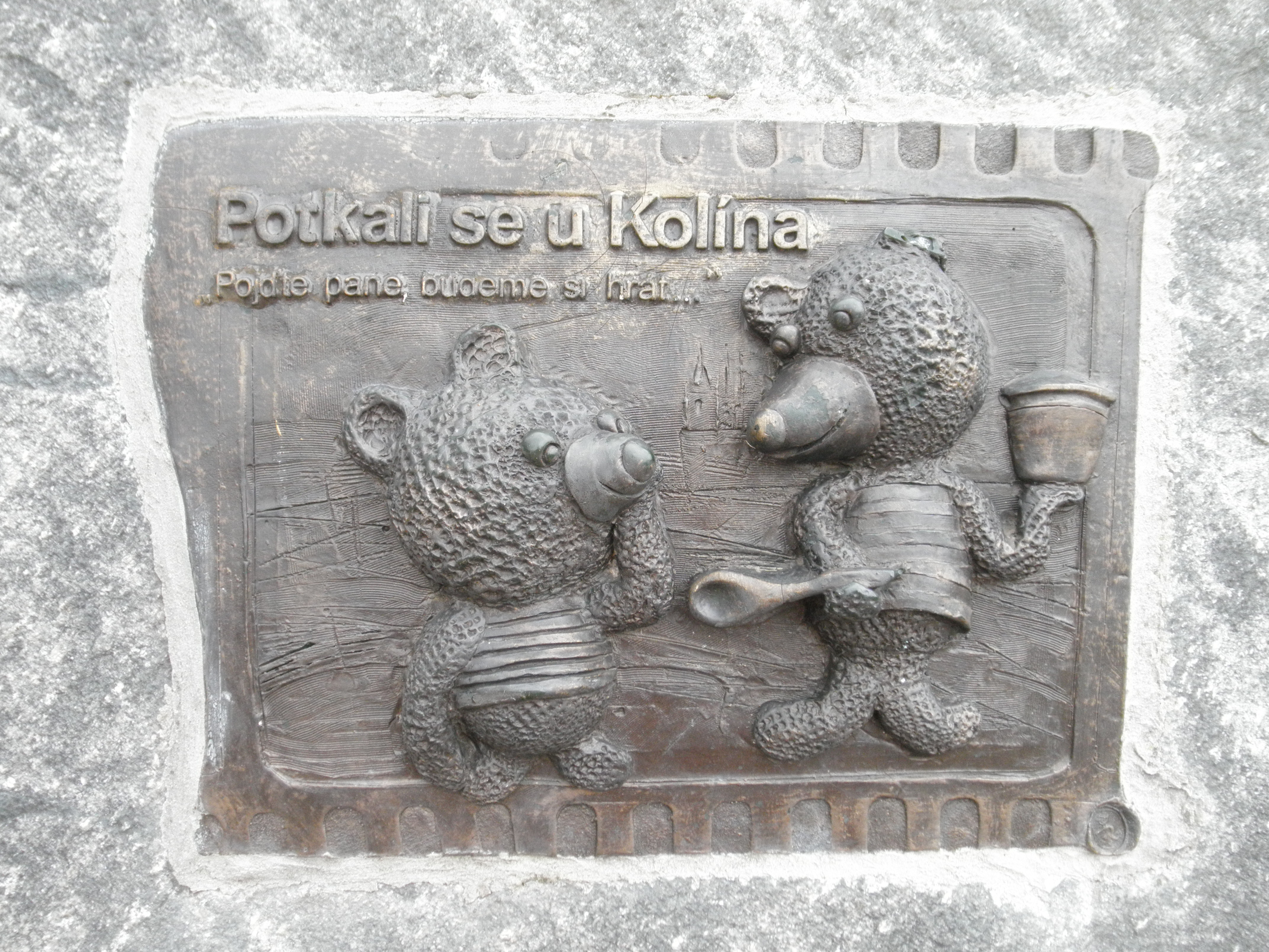 Detail of memorial plaque of the memorial to bears from Kolín from the TV series Hey Mister, Let's Play! in Kolín. The memorial was made by Pavel Radl in 2010.